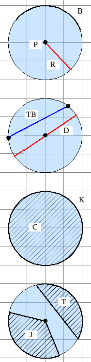 Elements of a circle